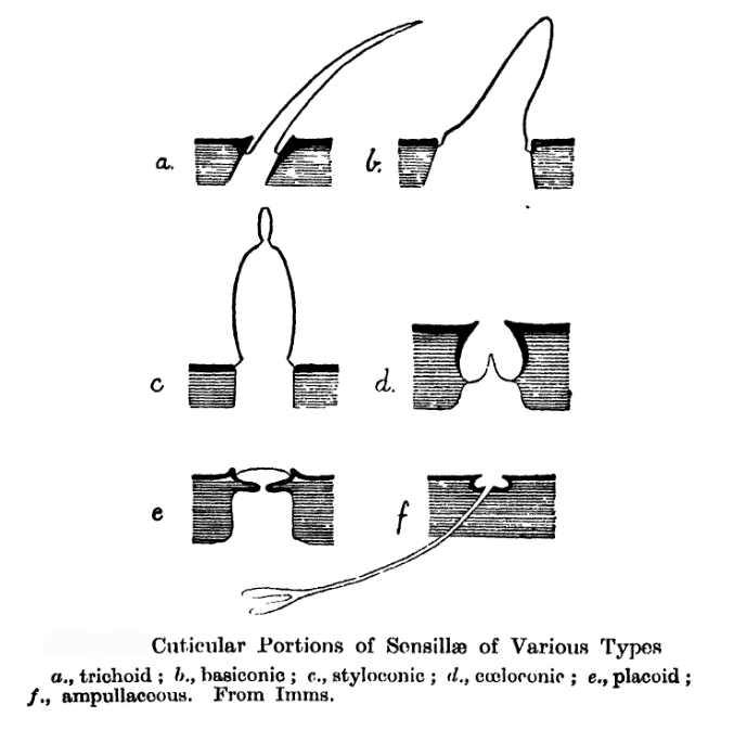 Sensillae of insects